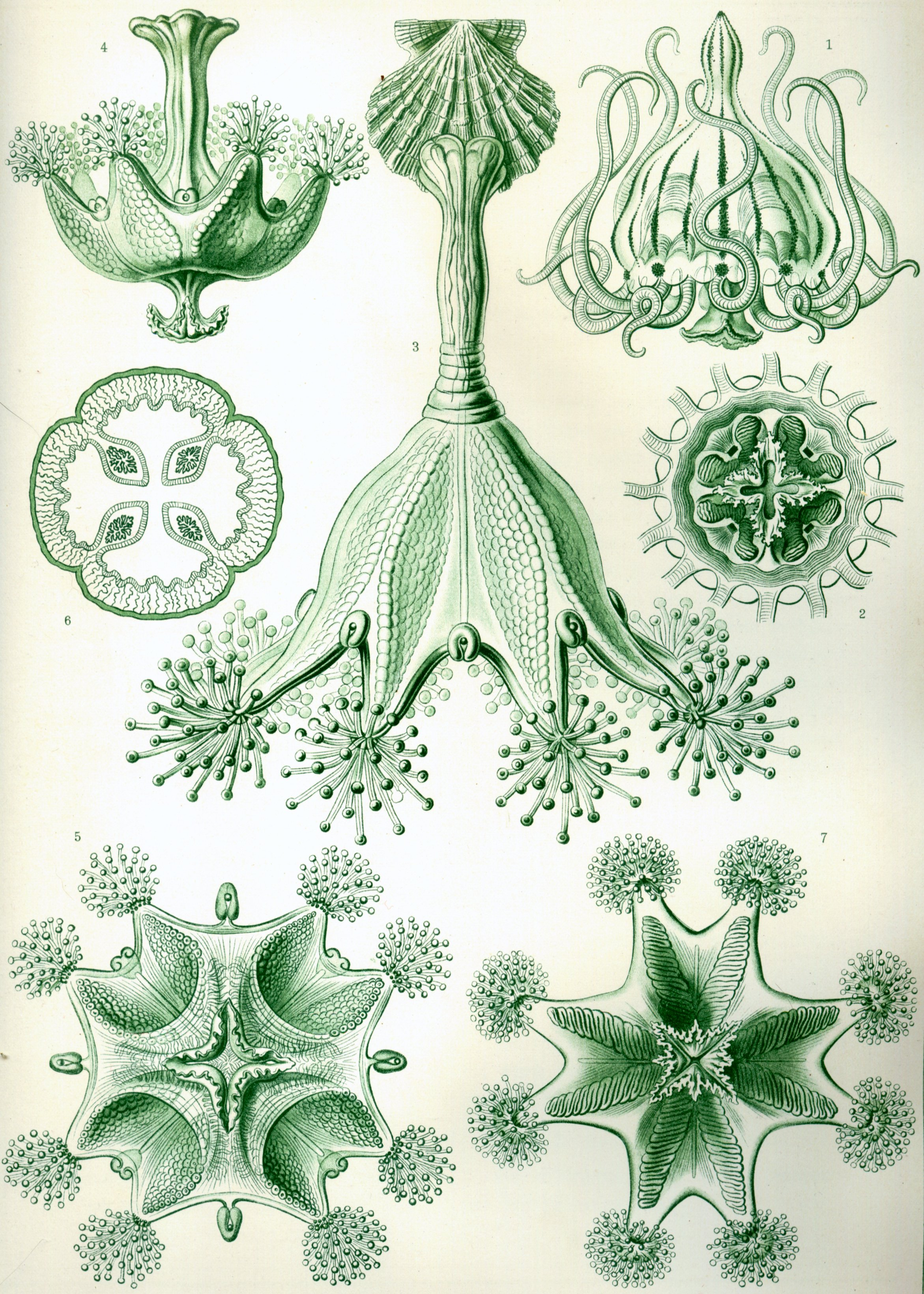 (top right): Tesserantha connecteus (Haeckel) = Tesserantha connectens Haeckel, 1880, medusa, side view (right): Tesserantha connecteus (Haeckel) = Tesserantha connectens Haeckel, 1880, medusa, bottom view (center): Haliclystus auricula (Clark) = Haliclystus auricula (Rathke, 1806), medusa, side view (top left): Haliclystus auricula (Clark) = Haliclystus auricula (Rathke, 1806), medusa, side view with umbrella folded back (bottom left): Haliclystus auricula (Clark) = Haliclystus auricula (Rathke, 1806), medusa, bottom view (left): Lucernaria bathyphila (Haeckel) = Lucernaria bathyphila Haeckel 1880, medusa, cross-section of stalk (bottom right): Lucernaria pyramidalis (Haeckel) = Lucernaria quadricornis O.F.Müller, 1776, medusa, bottom view